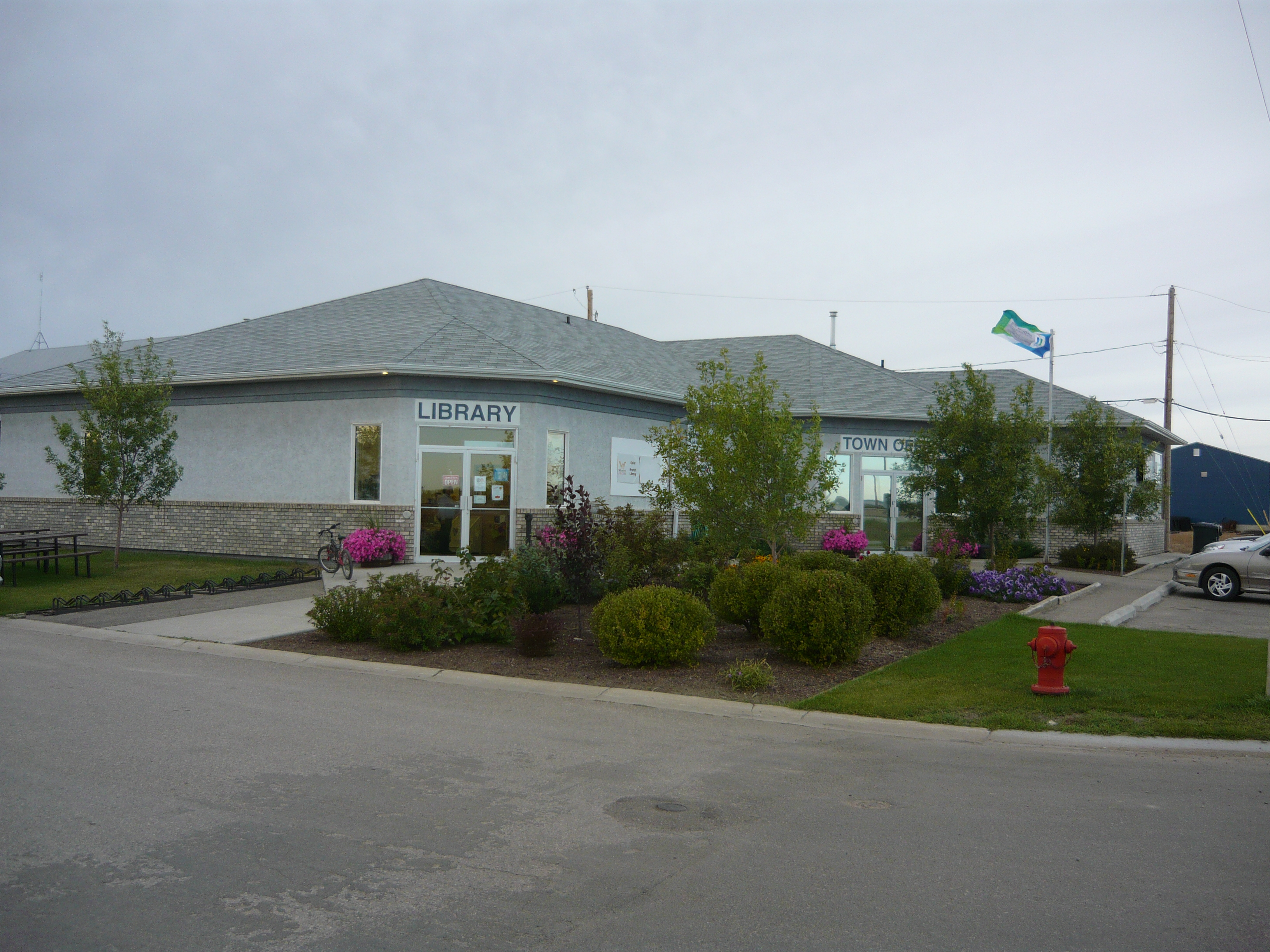 Library and Town Office, Osler, Saskatchewan, Canada. Located at 228 Willow Drive (intersection with Osler Road).